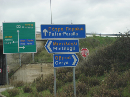 Direction sign (road sign) of roads in Greece at Ovrya (Achaia) exit, motorway Greek National Road 9.